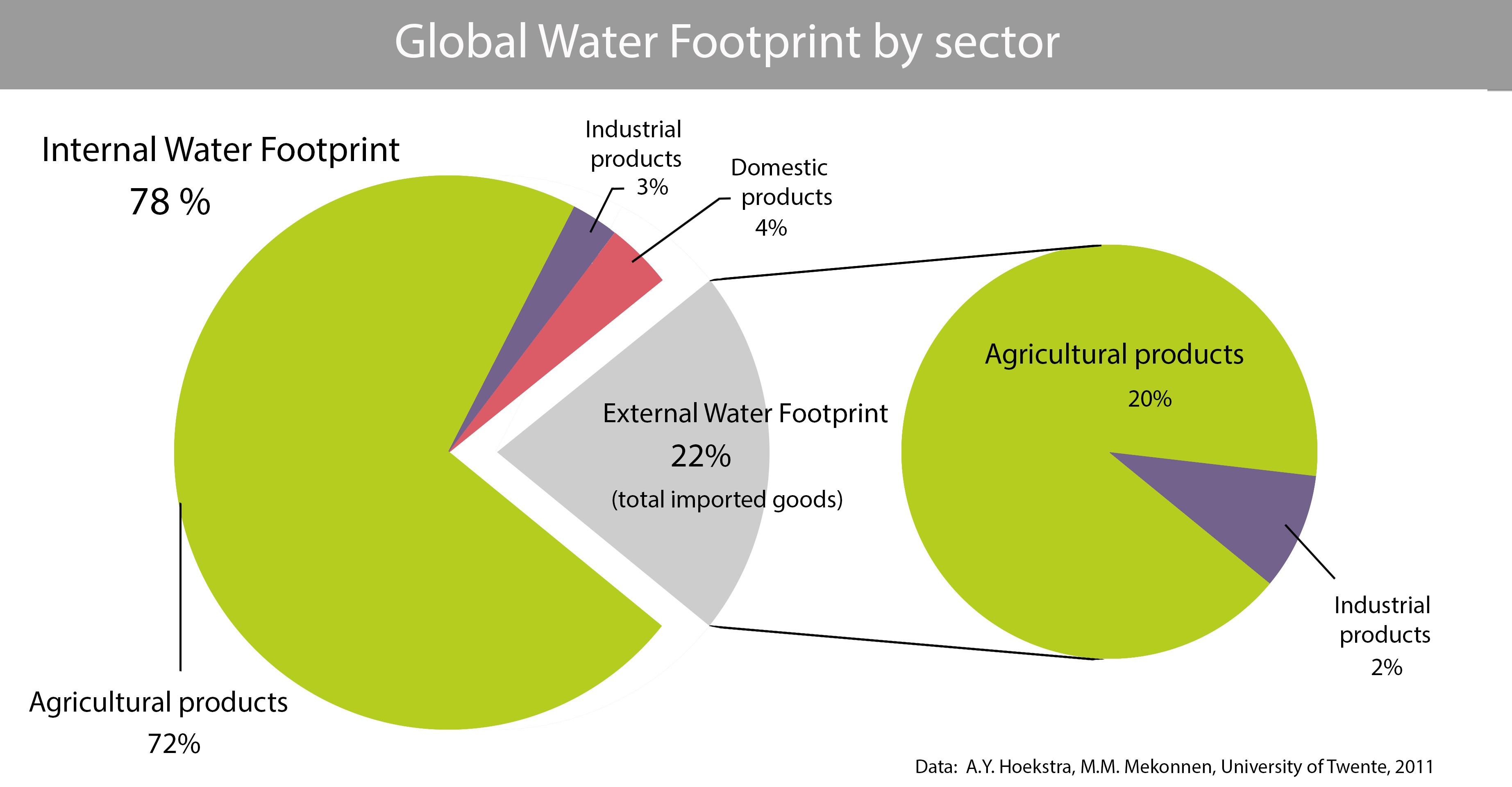 Graph showing the global average numbers and composition of all national water footprints, internally and externally, by sector.